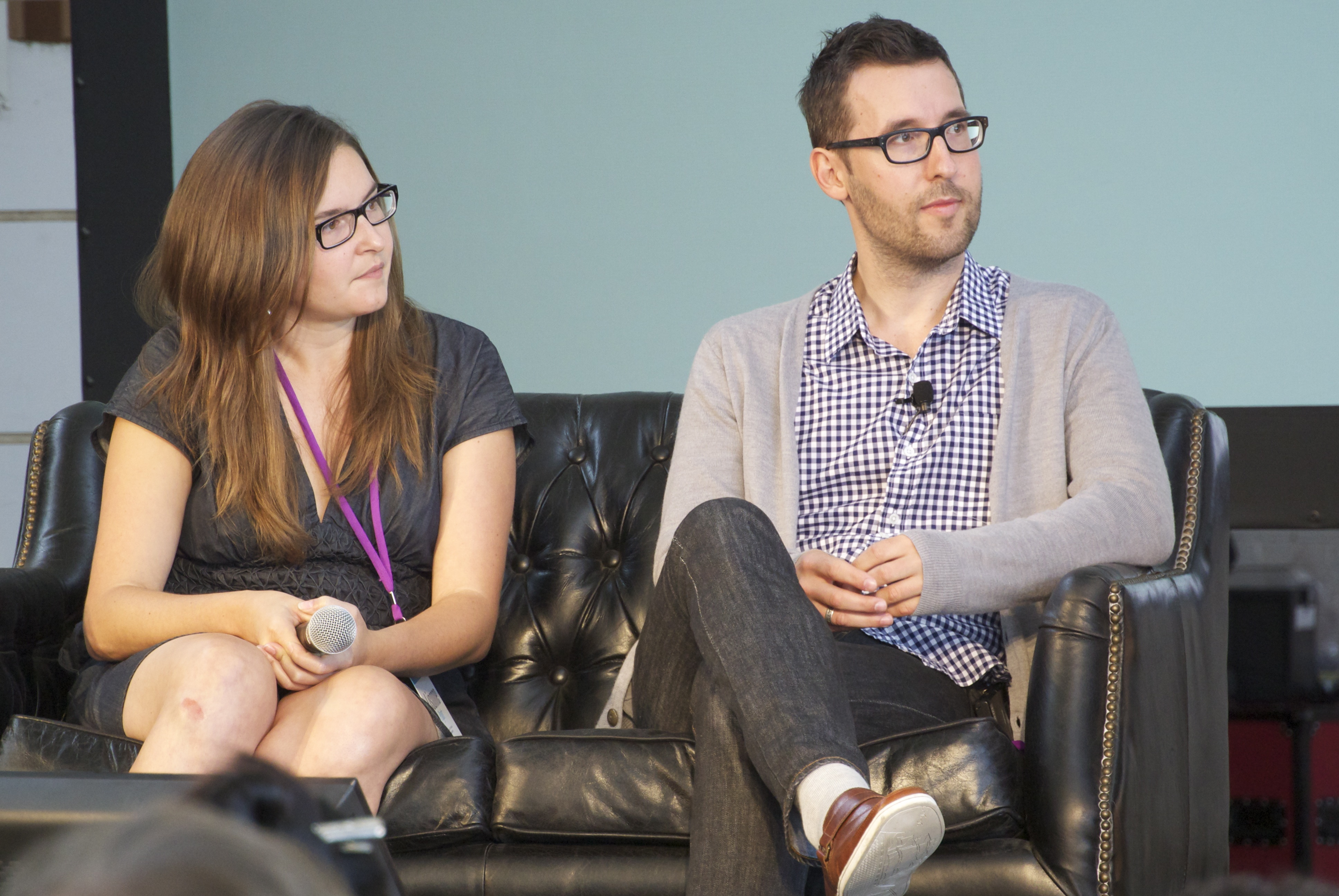 Indie Game: The Movie Directors of the Sundance-award winning documentary tracking the agony of indie game development. [Photos from the XOXO Festival]